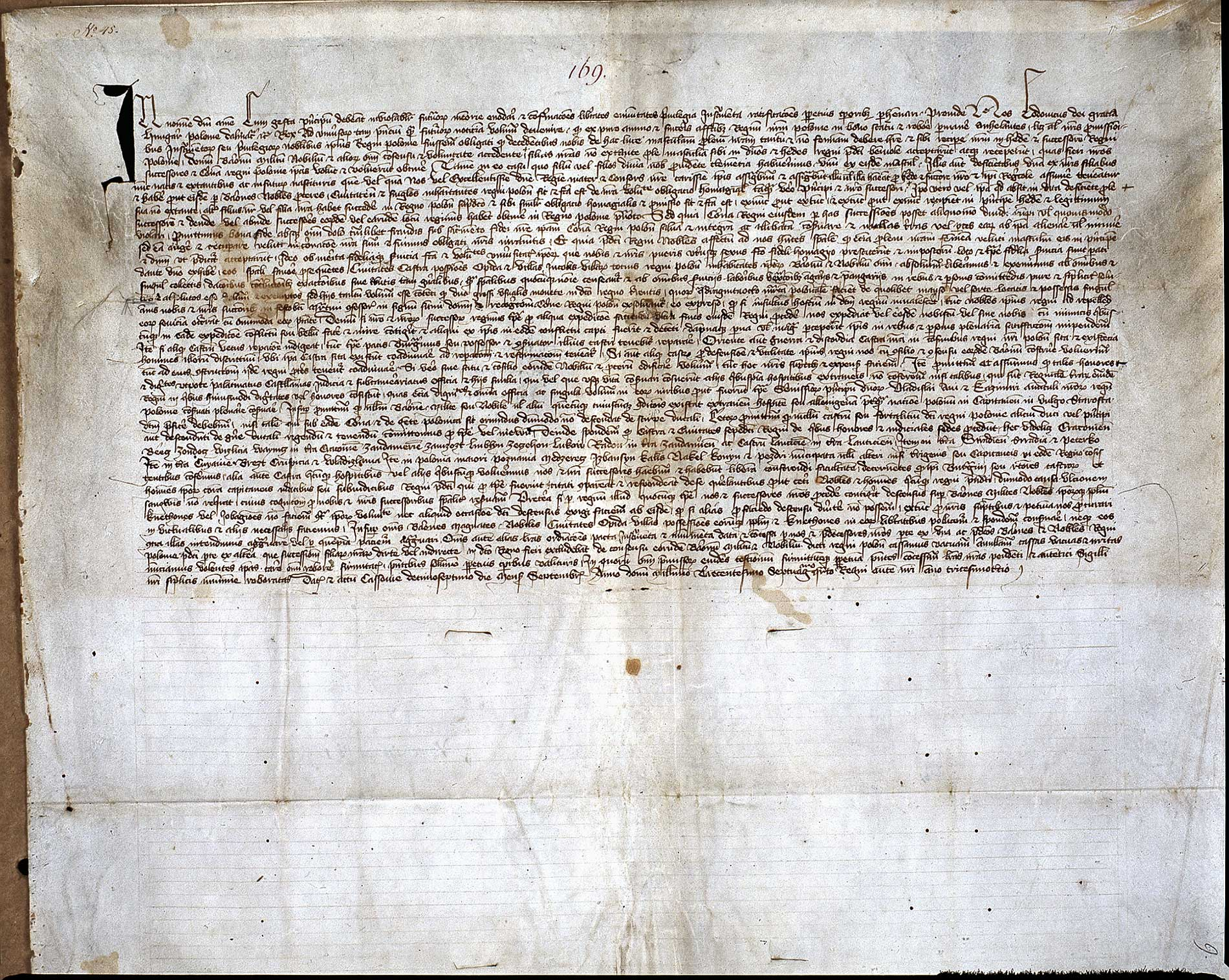 Privilege of Koszyce Source: [1]